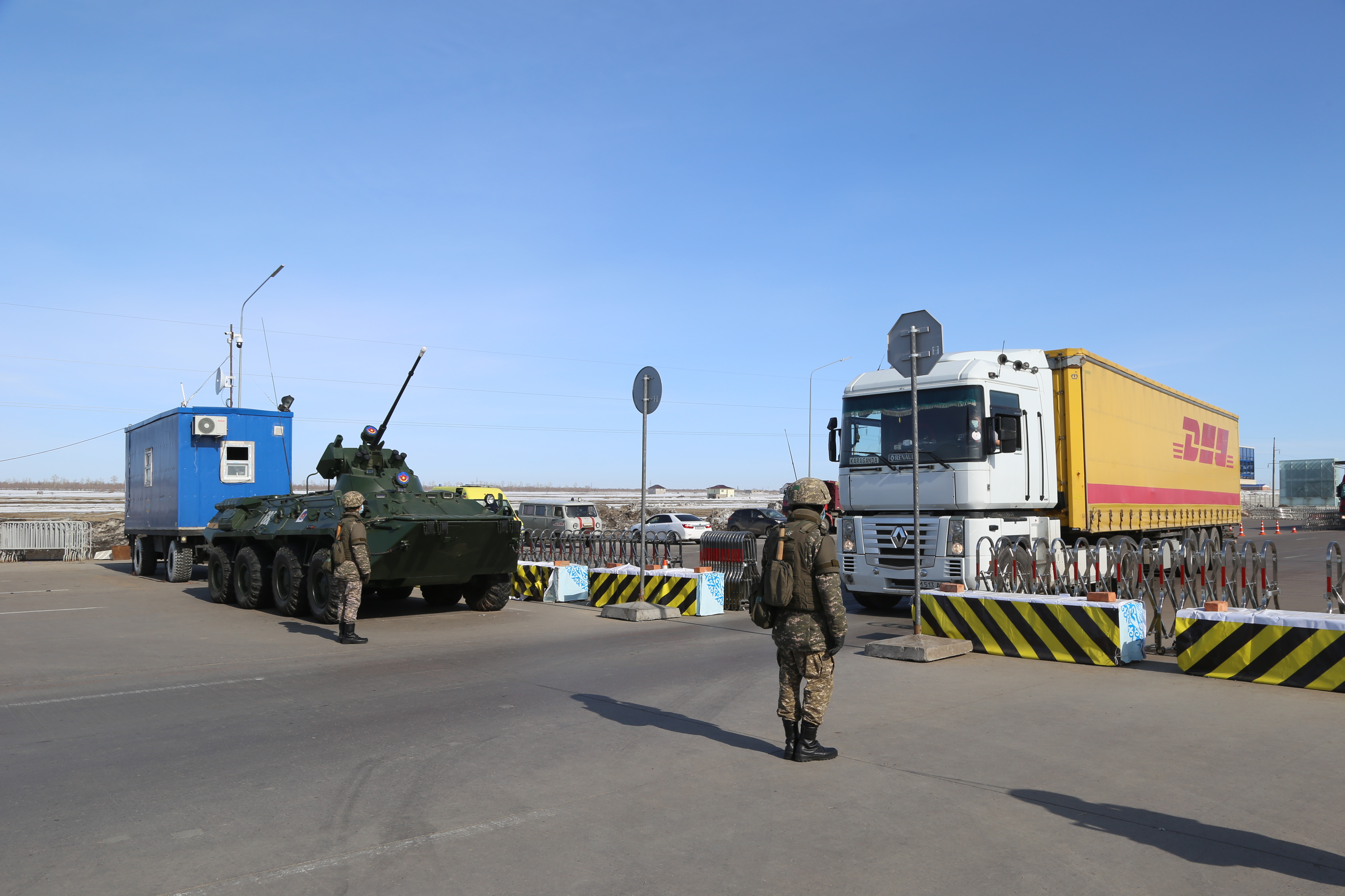 Quarantine in Nur-Sultan. 2020-03-26